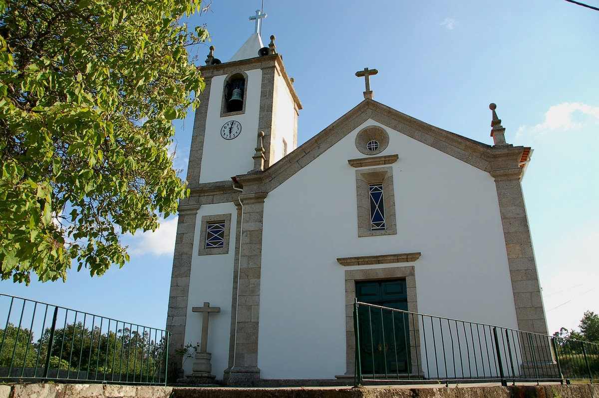 Church